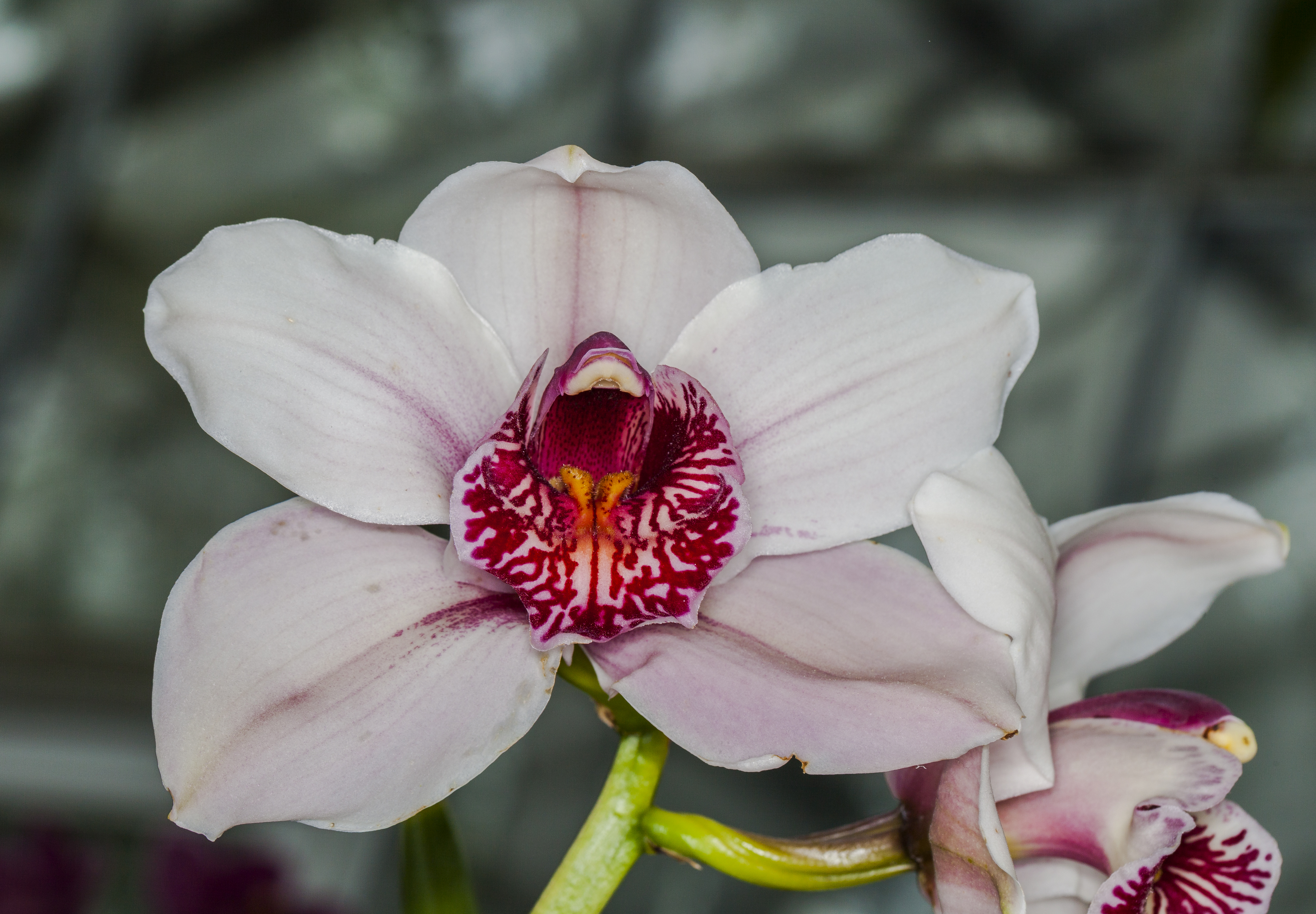 Cymbidium 'Pink Ice', Munich Botanical Garden, Germany